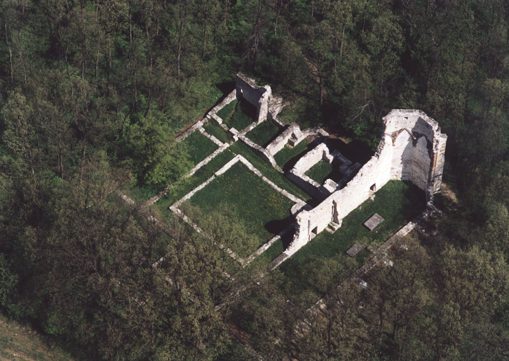 Pauliner Convent - Nagyvázsony - Hungary - Europe